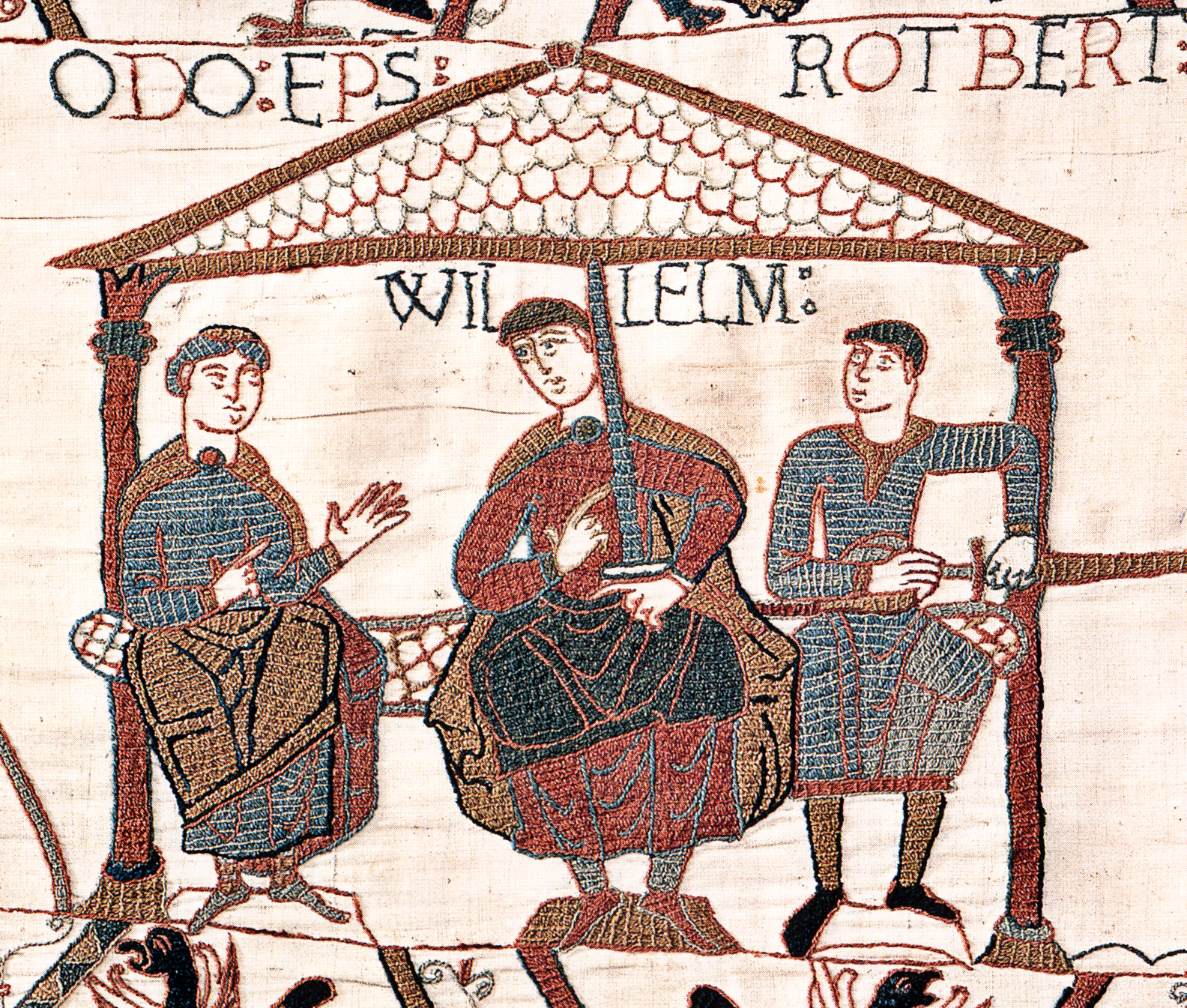 Panel from the Bayeux Tapestry - this one depicts Bishop Odo of Bayeux, Duke William, and Count Robert of Mortain. Scanned from Lucien Musset's The Bayeux Tapestry ISBN 9781843831631 pp 212-213.